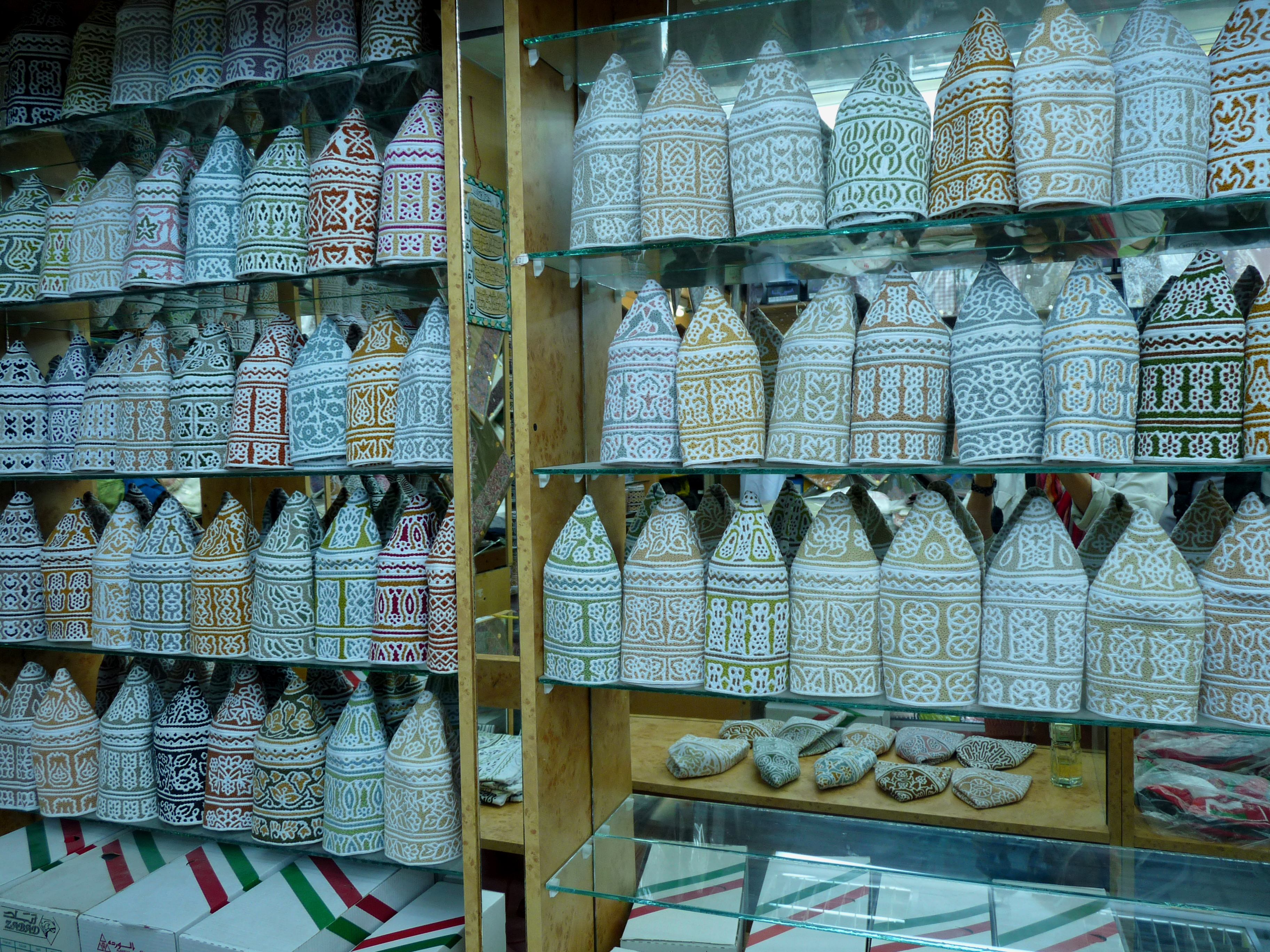 Craft market in Nizwa (Oman)